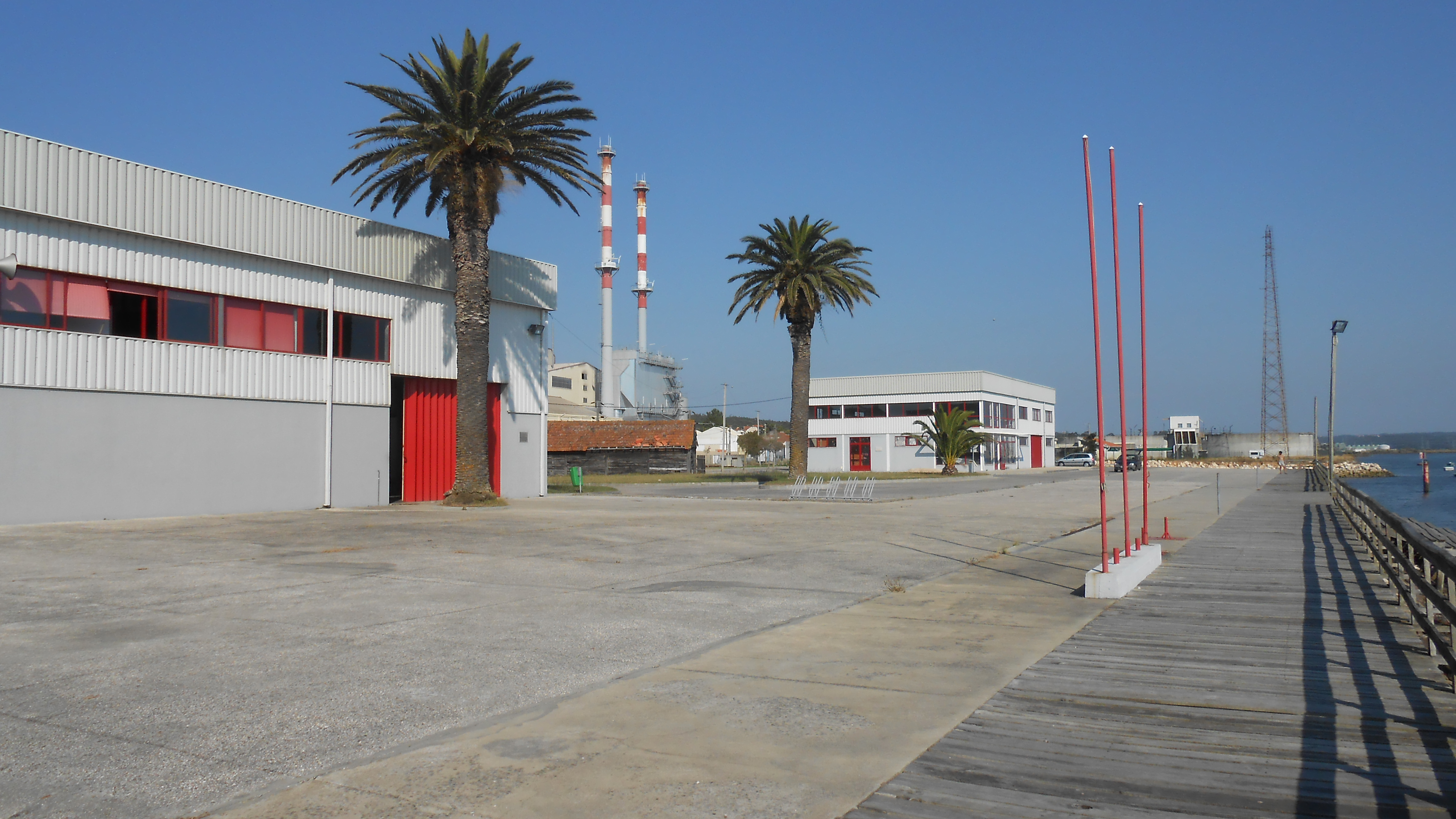 The two main buildings of the nautic centre in Figueira da Foz, owned by the Ginásio Clube Fgueirense, with its rowing facilities located here.